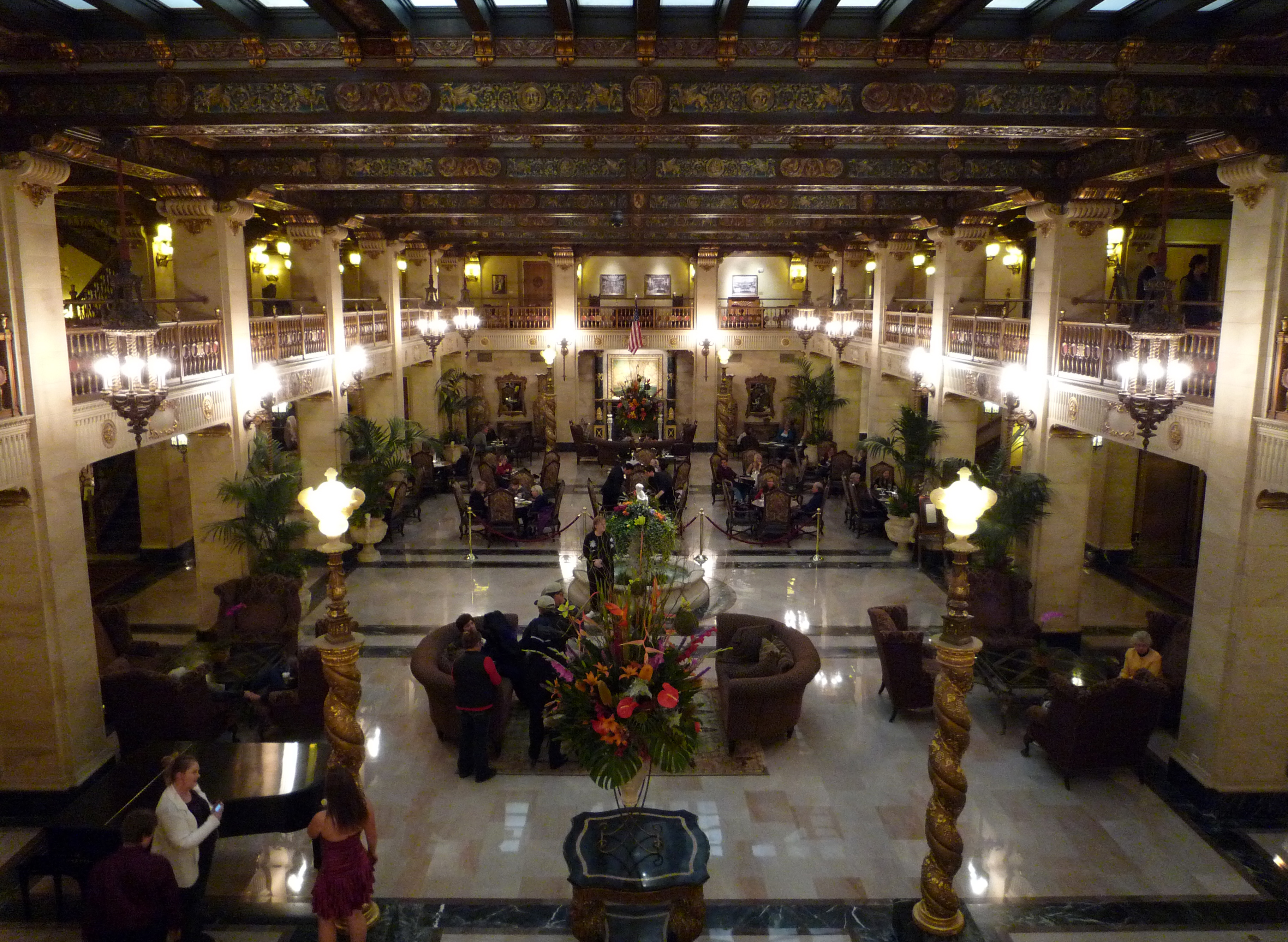 Main lobby of the Davenport Hotel, in Spokane, Washington.